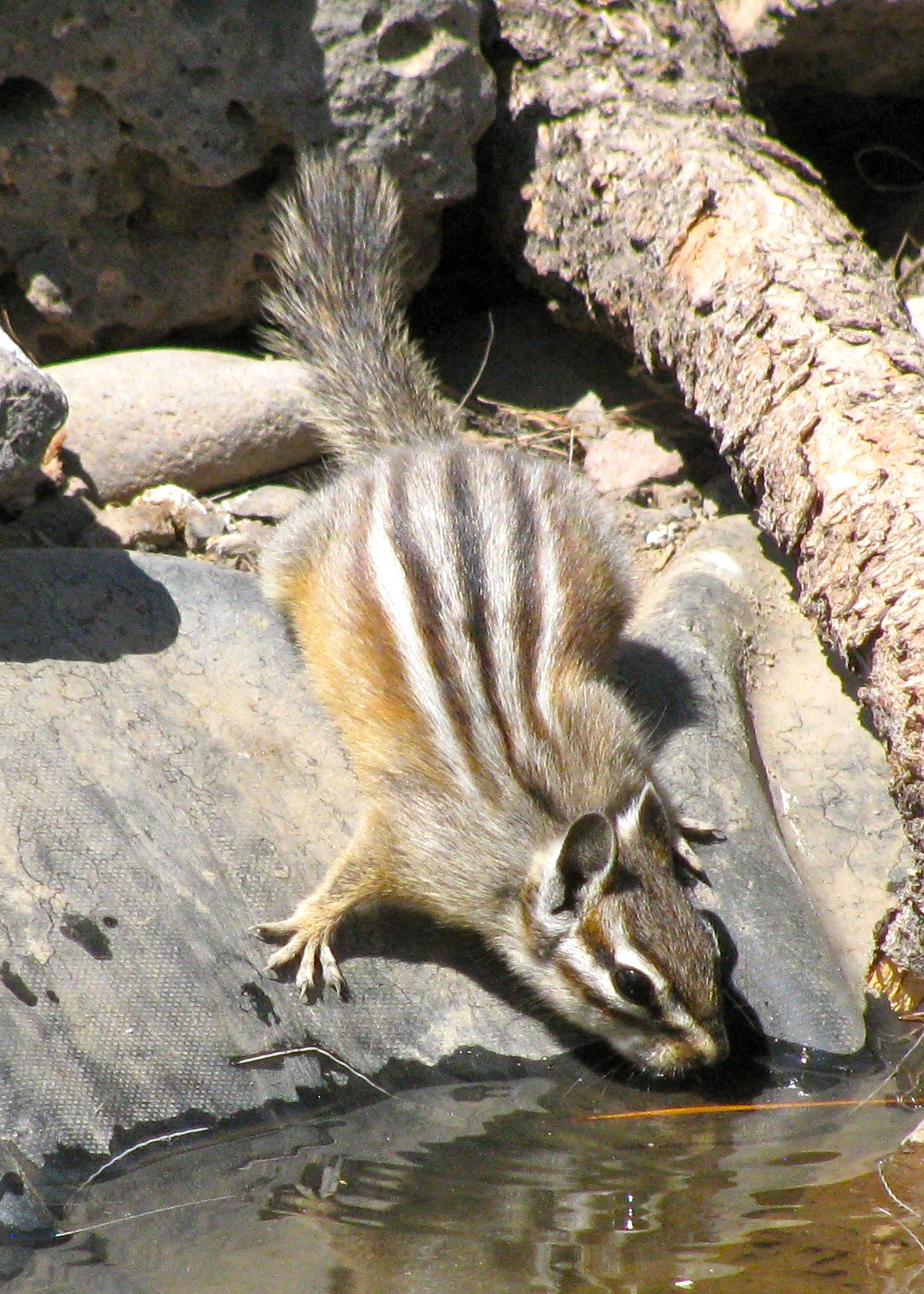 Yellow-pine chipmunk